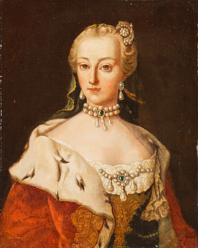 Archduchess Maria Amalia of Austria, Duchess of Parma